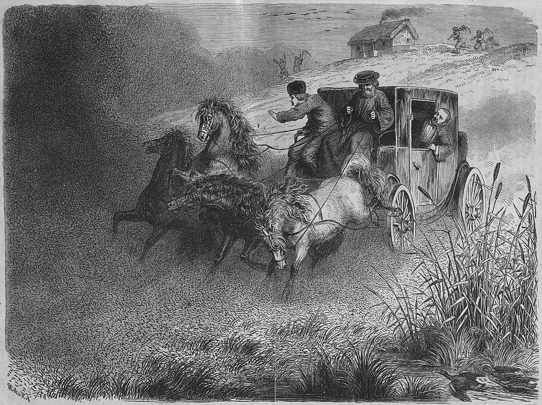 caption: "Mitten in den Heuschrecken."